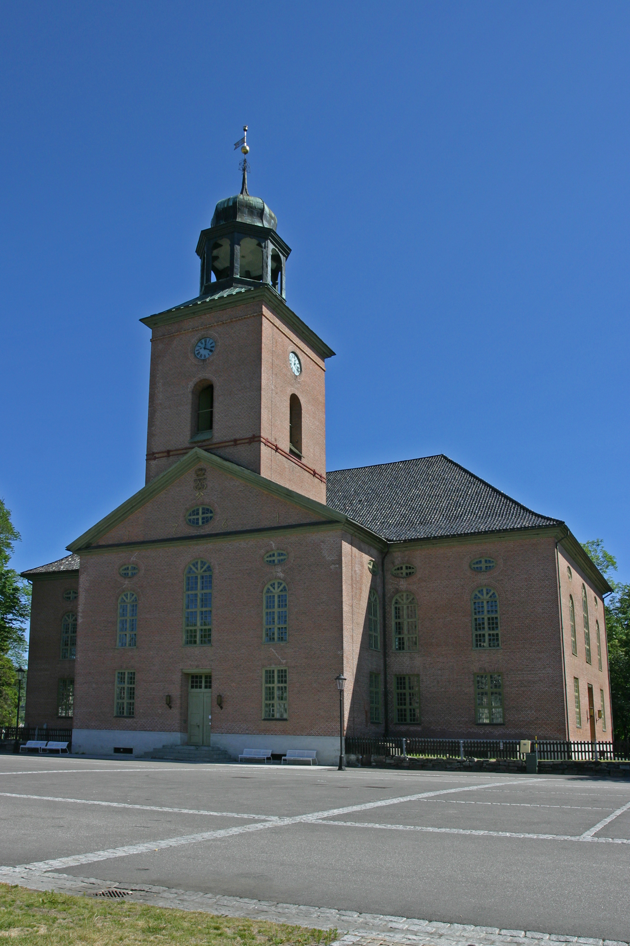 Picture of Kongsberg church (Buskerud - Norway)